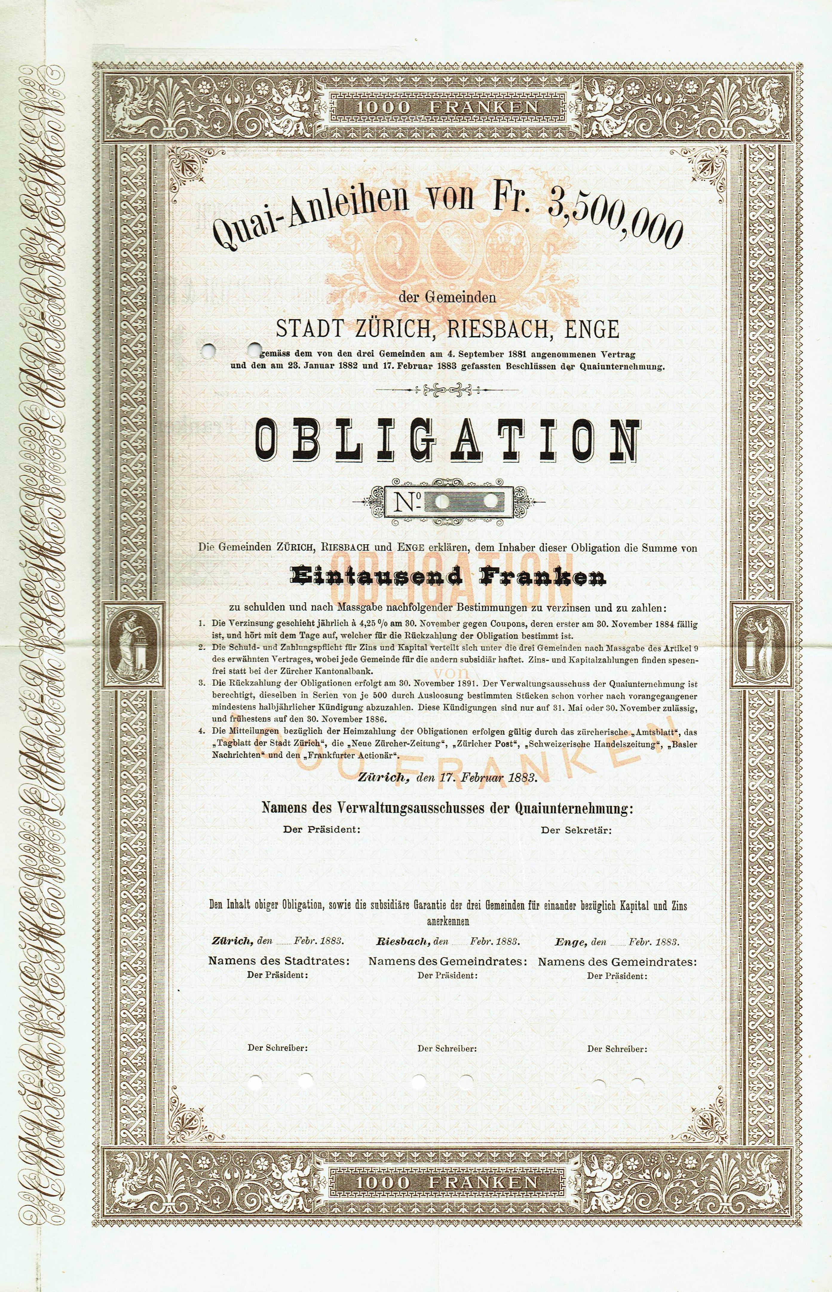 Bond of the Quaiunternehmung of the communes Zurich, Riesbach and Enge, issued 17. February 1883